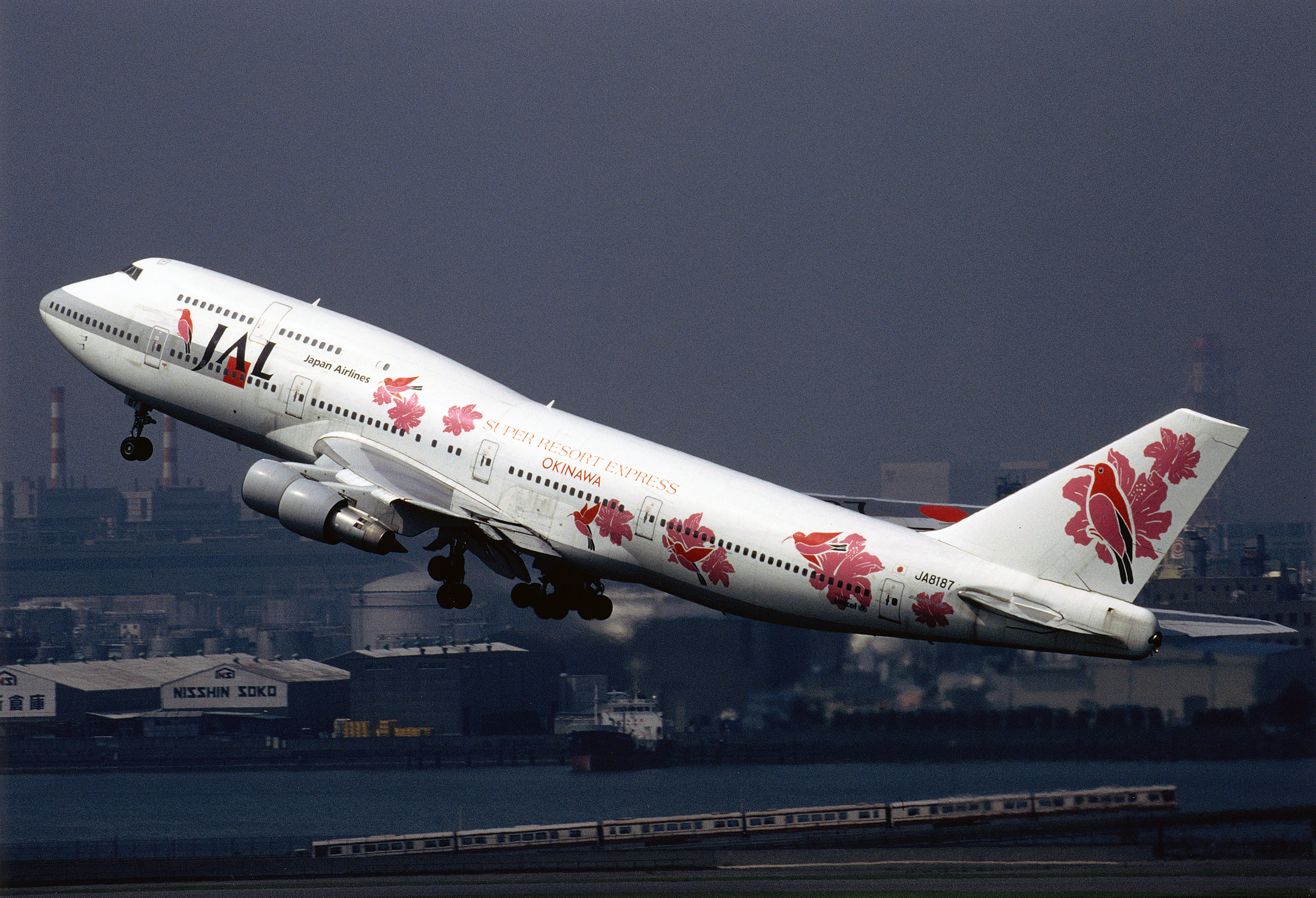 JAL SUPER RESORT EXPRESS OKINAWA Boeing747-300SR JA8187 at Tokyo International Airport